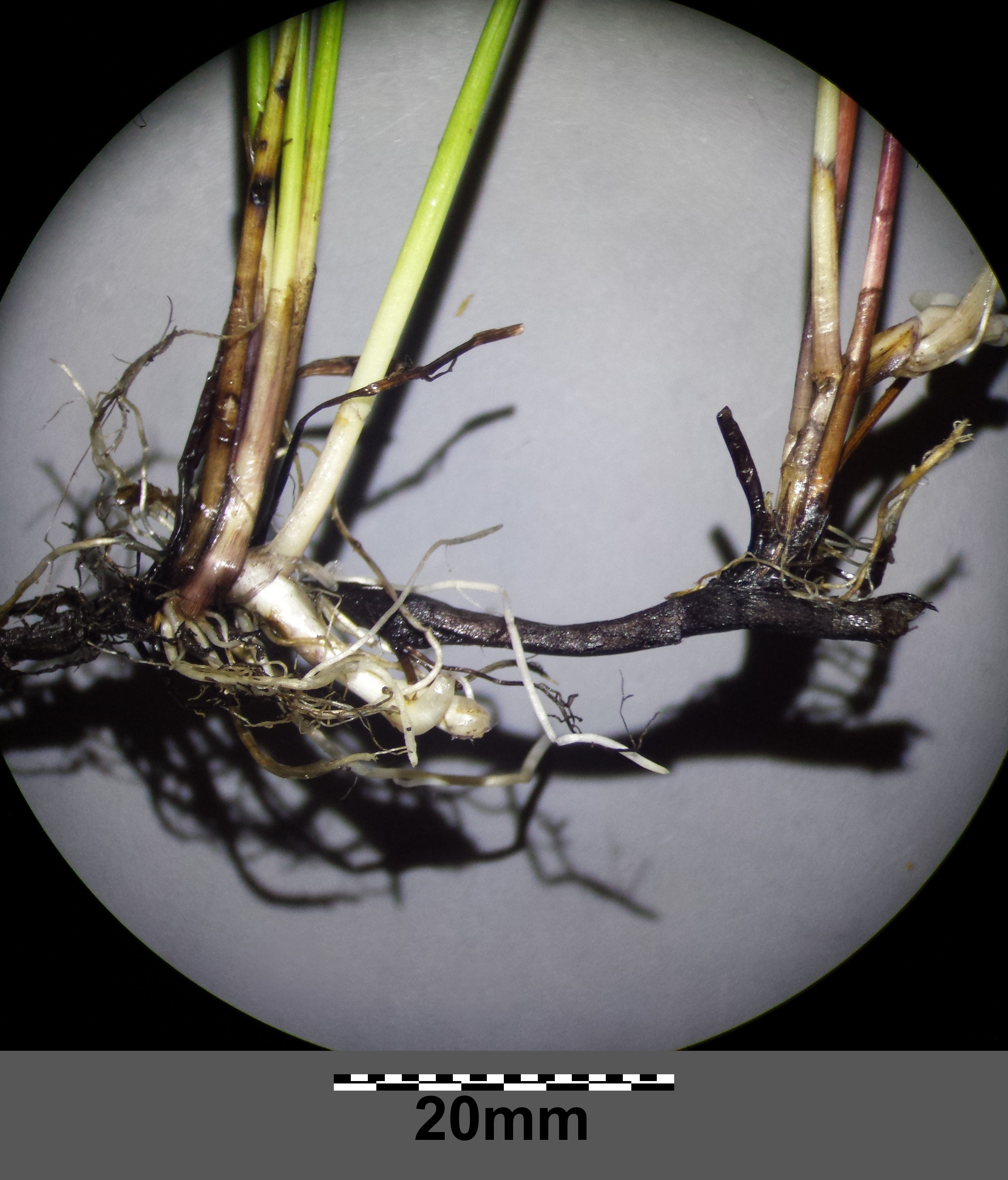 Base of stems with rhizomes Taxonym: Eleocharis uniglumis ss Fischer et al. EfÖLS 2008 ISBN 978-3-85474-187-9 Location: "Irissee" in Donaupark, Vienna-Donaustadt - ca. 160 m a.s.l. Habitat: shore of a pond